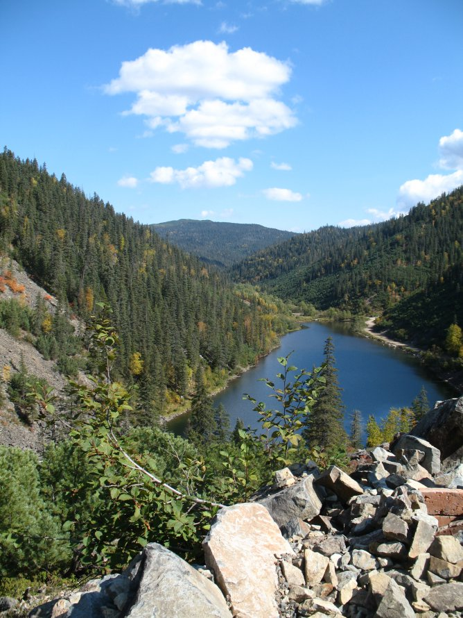 Amut lake, Khabarovsky Krai, Russia License on Flickr (2012-06-27): CC-BY-SA-2.0 Flickr tags: nature, lake